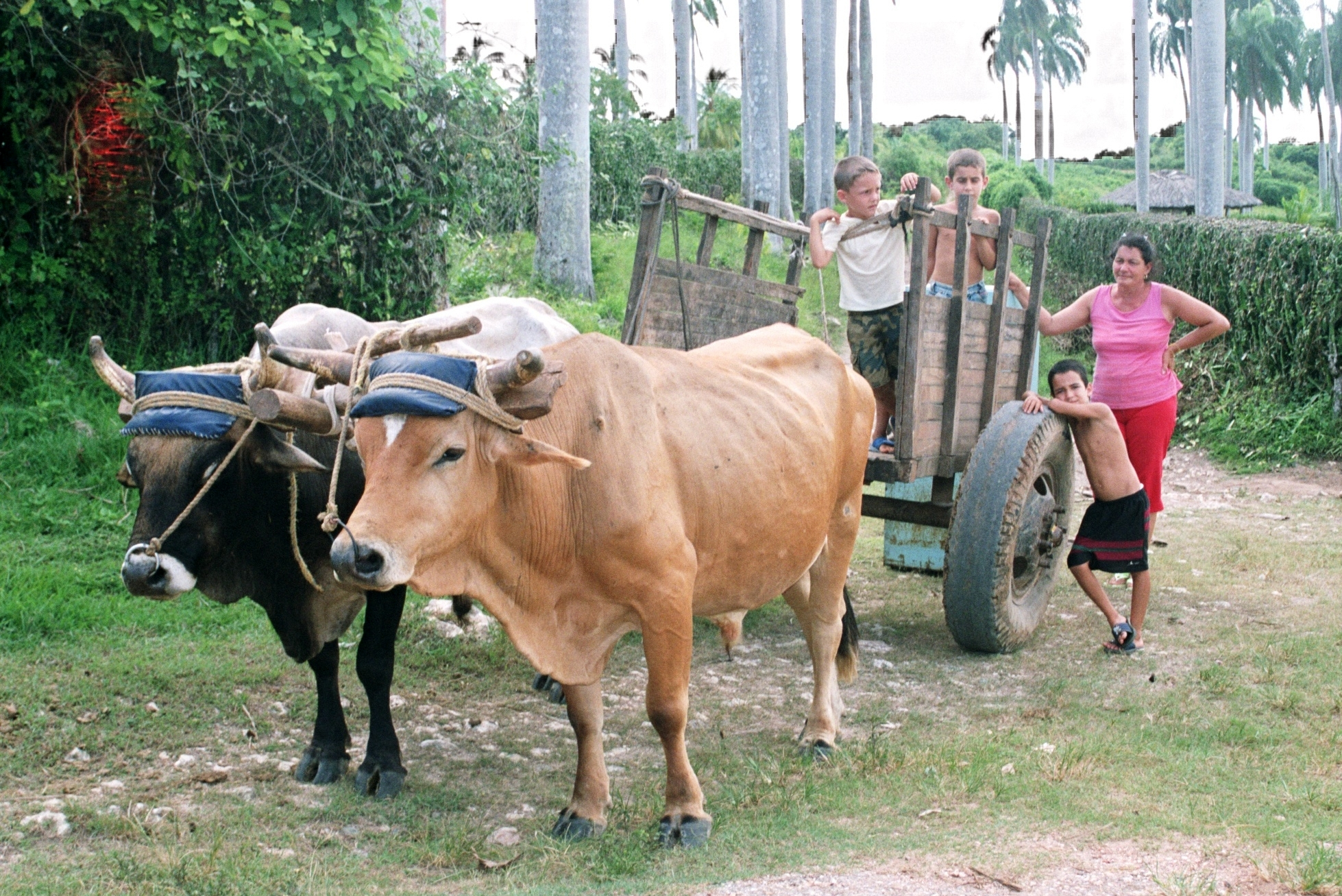 Banes